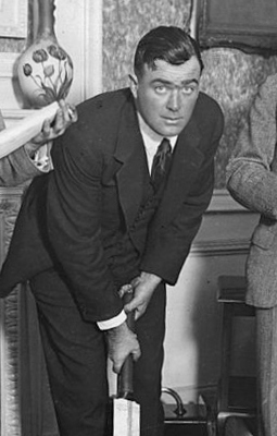 1st May 1931: Members of the New Zealand cricket team in their London hotel room selecting their bats: Tom Lowry.